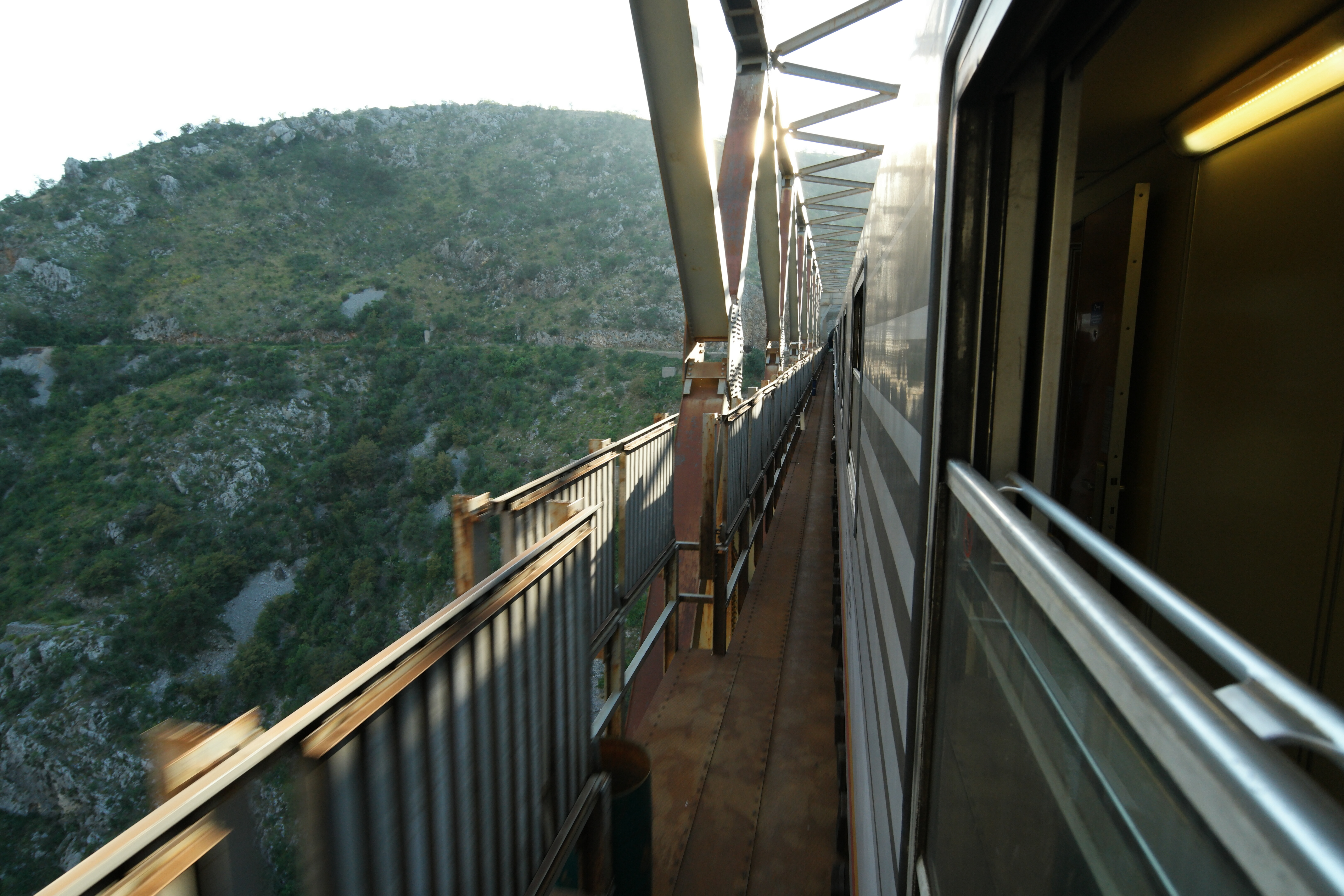 Mala rijeka bridge crossing in Montenegro